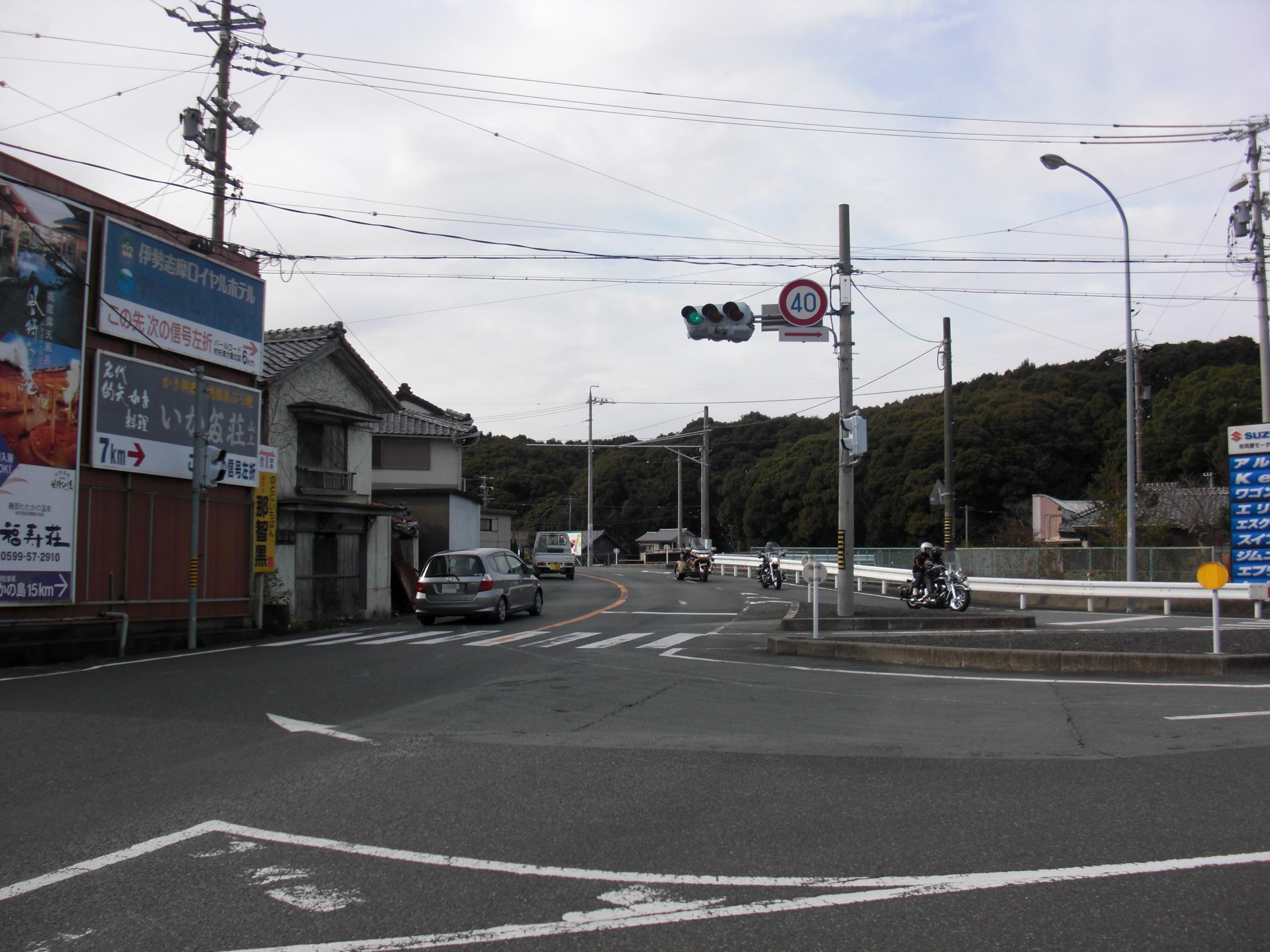 Starting point of the Mie Prefectural Road Route 61 (Isobe Daio Line) in Isobecho Erihara, Shima City